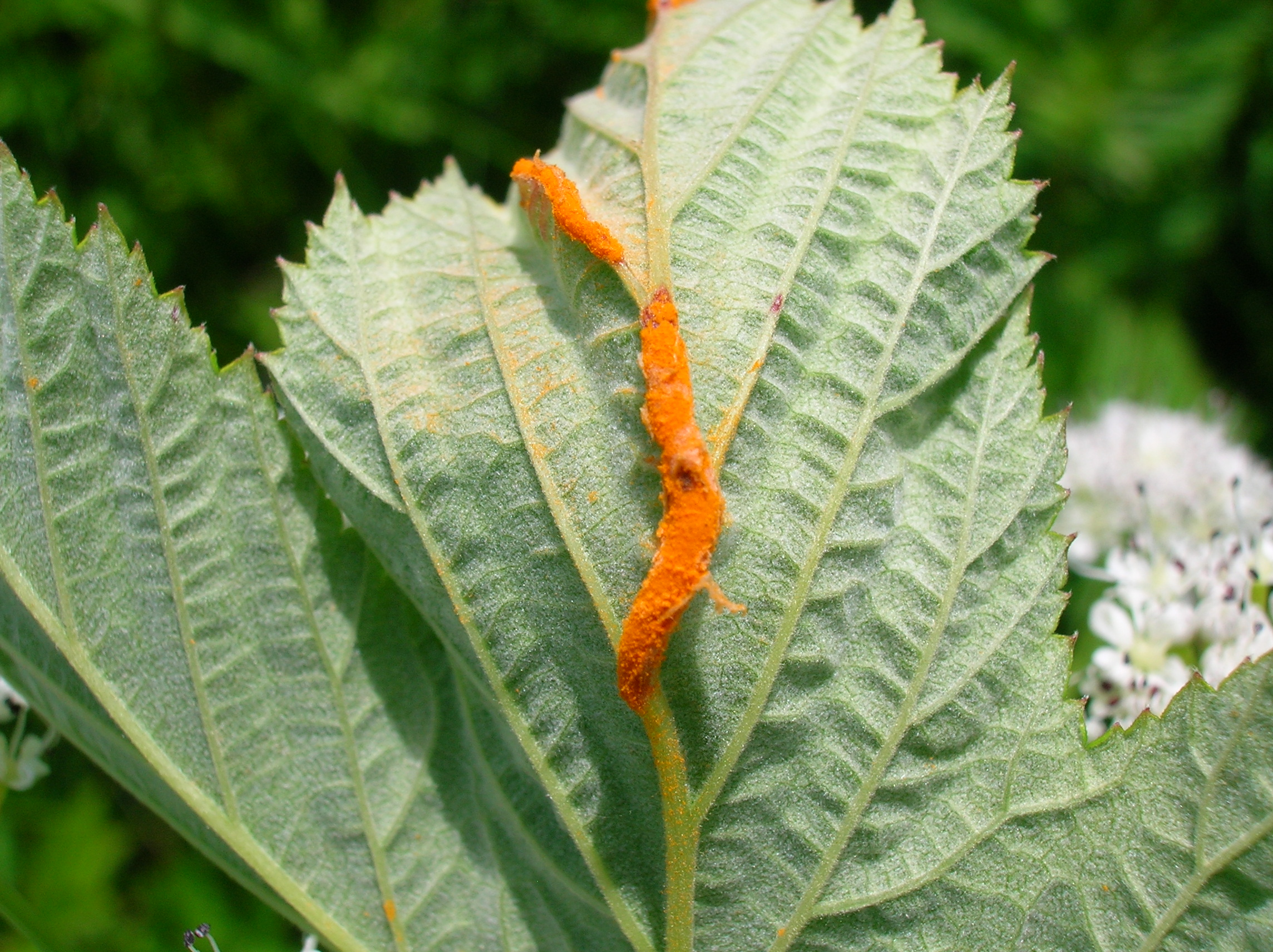 Meadowsweet Rust - Triphragmium ulmariae. Eglinton. North Ayrshire. Scotland.